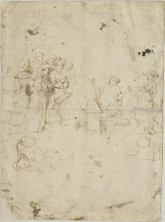 Front of a two-sided drawing. For the reverse, see File:Bosch follower Conjurer (verso).jpg.